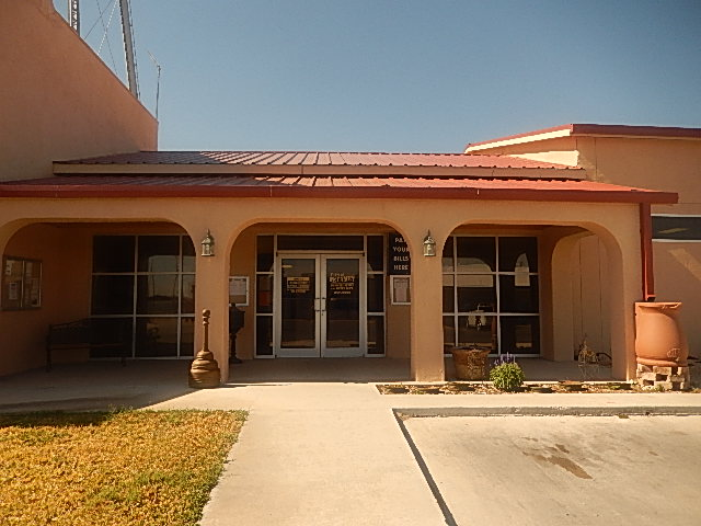 I took photo of McCamey, TX, City Hall with Nikon camera.